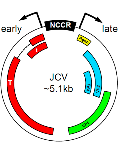 Schematic of the circular viral DNA genome of the John Cunningham (JC) virus showing locations of genes and the non-coding control region (NCCR). From the following paper: Wharton KA Jr, Quigley C, Themeles M, Dunstan RW, Doyle K, et al. (2016) JC Polyomavirus Abundance and Distribution in Progressive Multifocal Leukoencephalopathy (PML) Brain Tissue Implicates Myelin Sheath in Intracerebral Dissemination of Infection. PLoS ONE 11(5): e0155897.